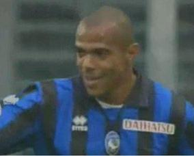 Adriano Ferreira Pinto, brazilian forward